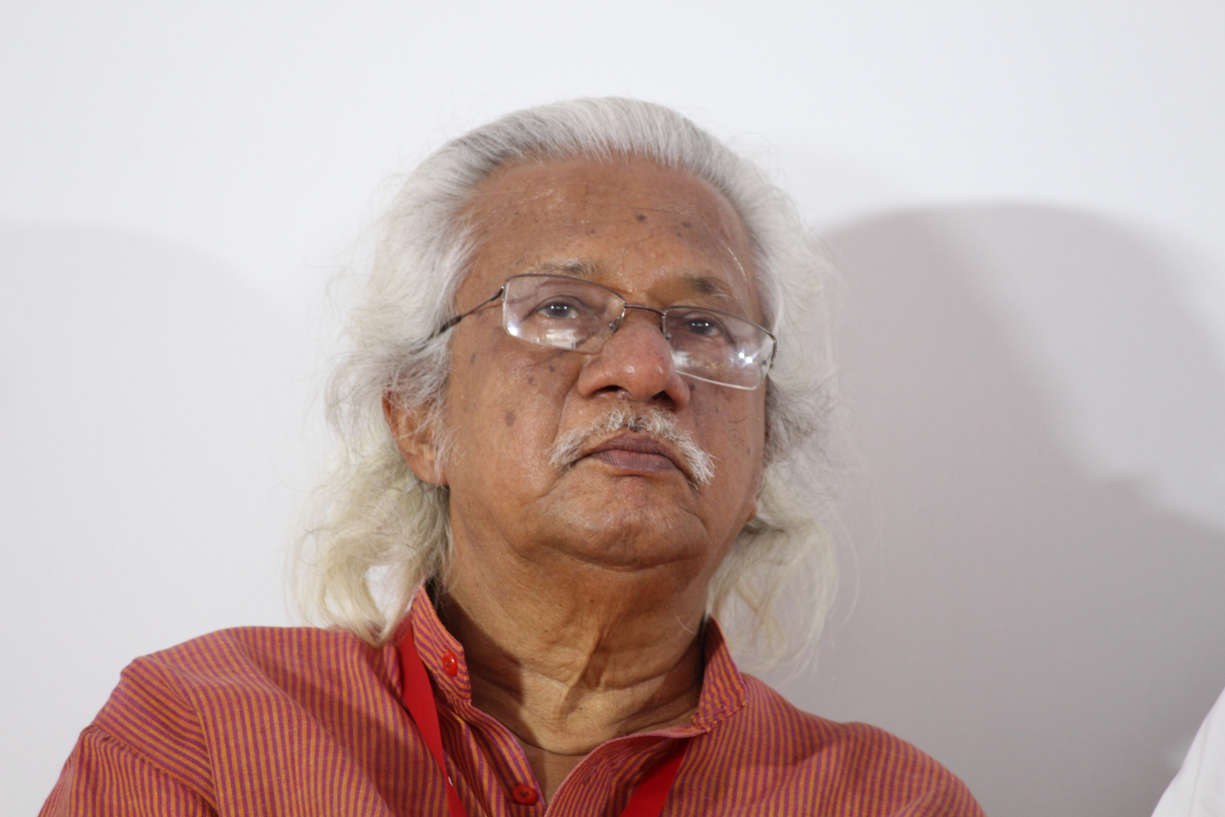 Adoor Gopalakrishnan at International Film Festival of Kerala 2016. He is a South Indian film director, script writer, and producer. Adoor Gopalakrishnan had a major role in revolutionizing Malayalam cinema during the 1970s and is regarded as one of the notable film makers of India.